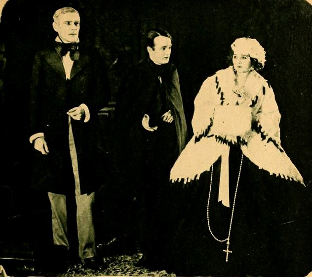 Still from the American film Romance (1920) with Norman Pritchard (under the stage name Norman Trevor), Basil Sydney, and Doris Keane, from an adaption of the film on page 61 of the July 1920 Motion Picture Magazine.